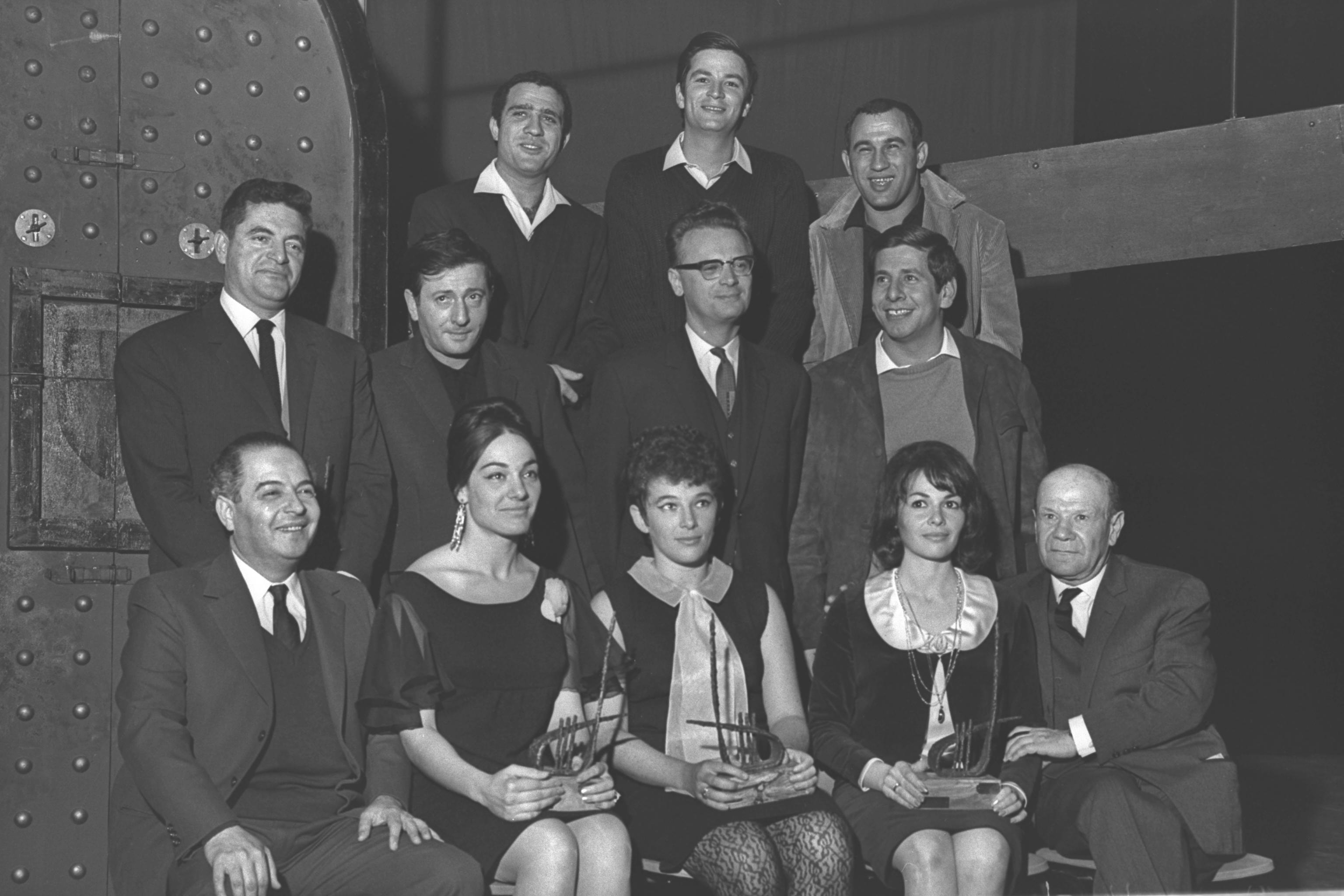 THE RECIPIENTS OF THE 1964 "KINOR DAVID" AWARD IN ART & ENTERTAINMENT, HELD AT THE "CAMERI" THEATRE. (MORE DETAILS IN HEBREW CAPTION)